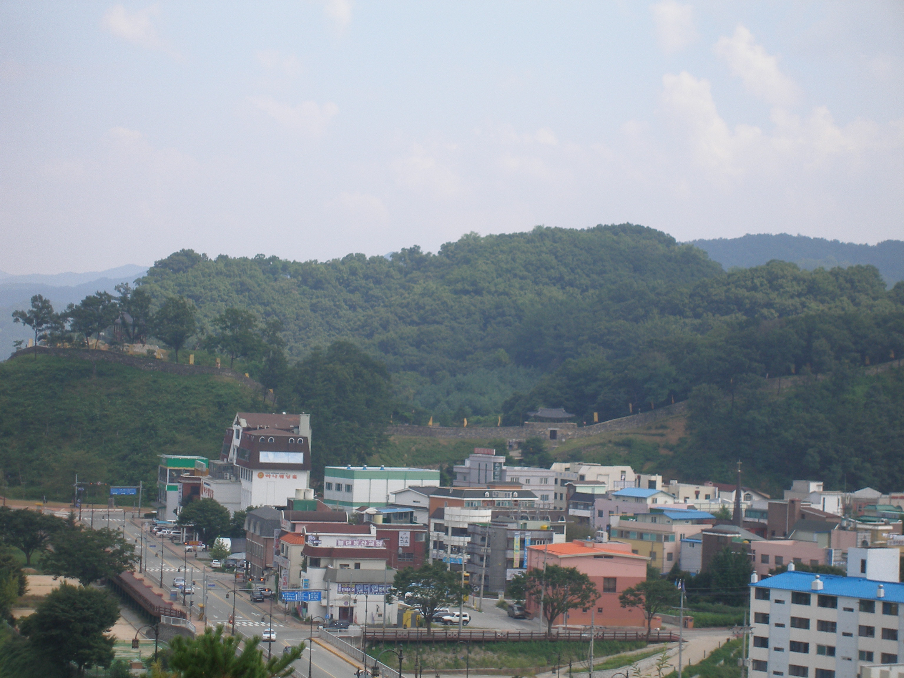 Gongsan Castle in Gongju, Korea